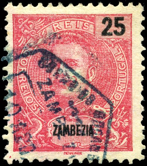 Zambezia 25-reis stamp of 1903